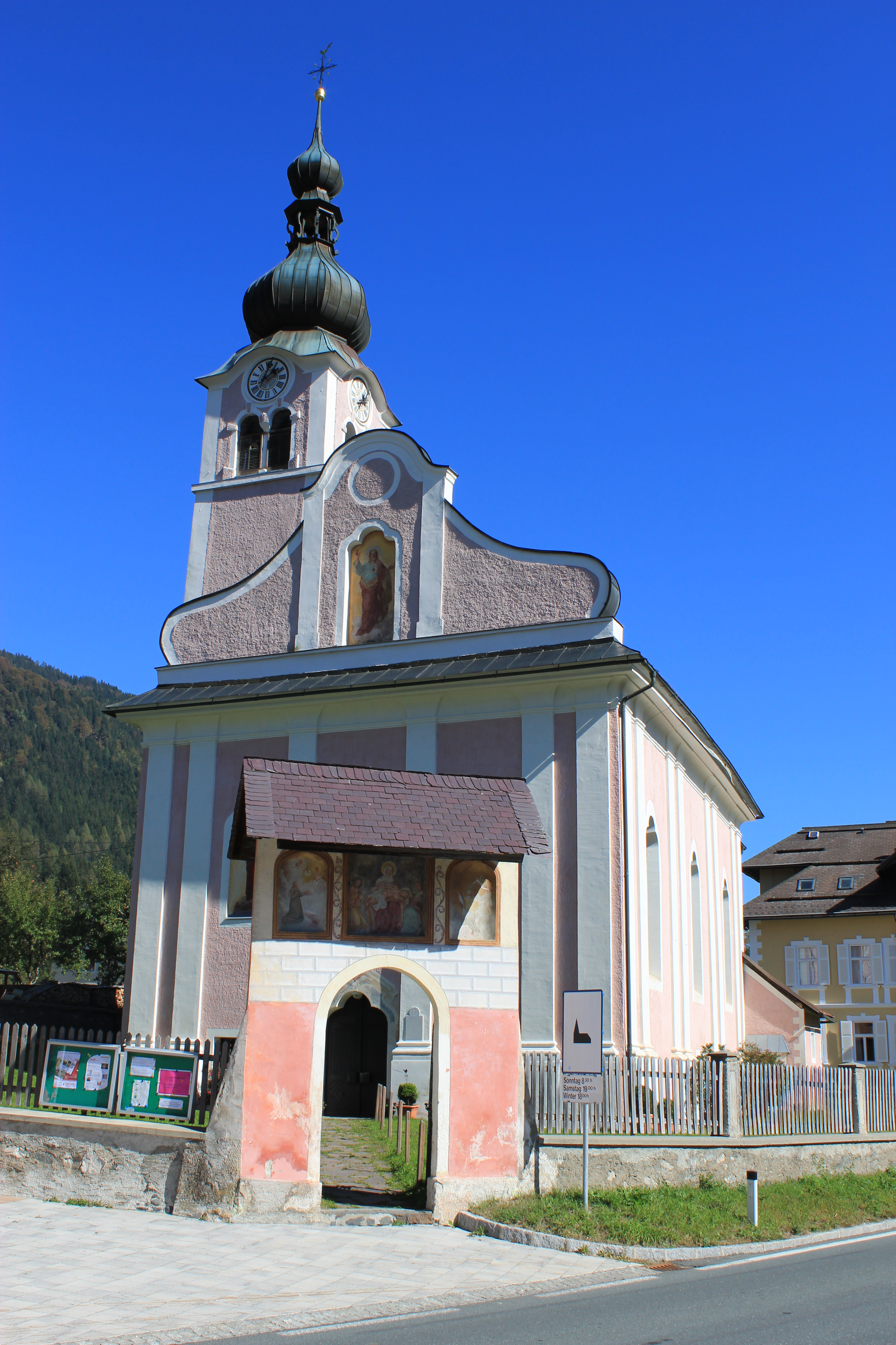 Parish church of Kirchbach